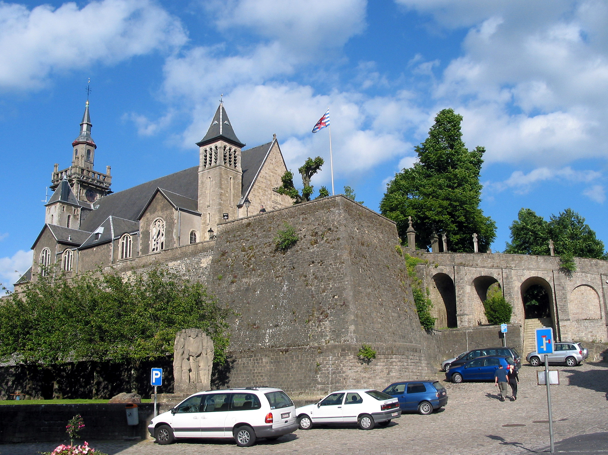 Arlon (Belgium): St. Donat's church (17th century). Walon: Ârlon (Bèljike): l’èglîje Sint-Dônat (XVIIinme sièke).